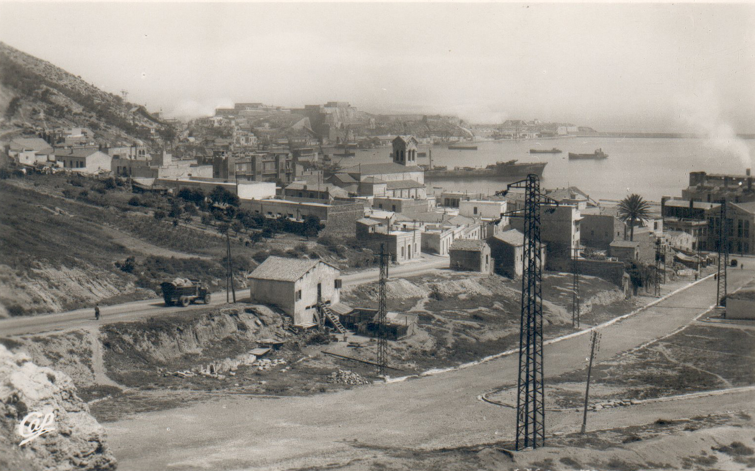 Cimetier street at Mers El-Kébir, Algeria.